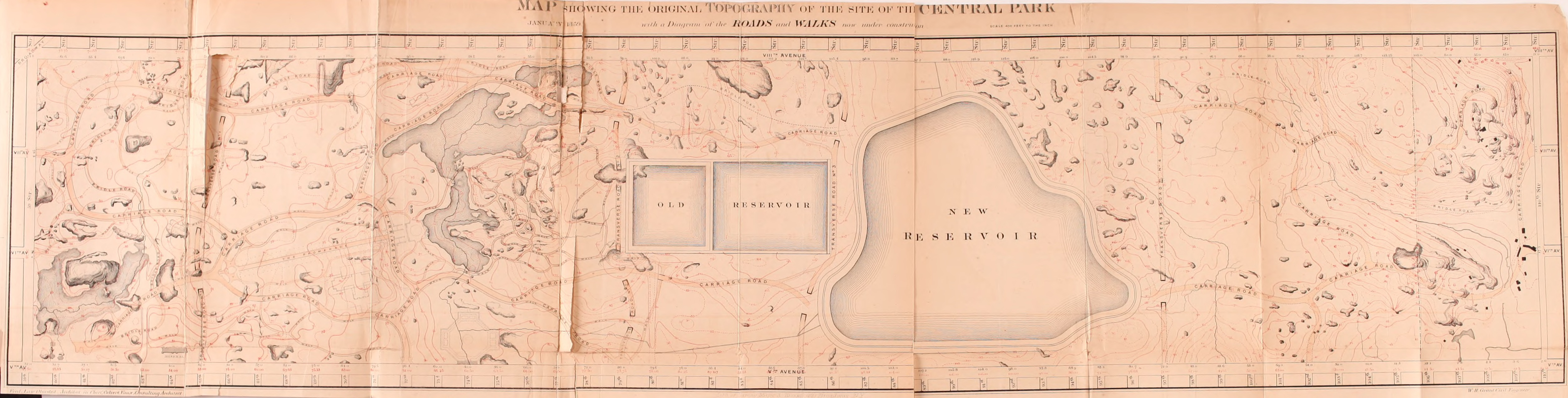 Title: Annual report of the Board of Commissioners of the Central Park Year: 1858 (1850s) Authors: New York (N. Y. ). Board of Commissioners of the Central Park Subjects: Publisher: [New York : s. n. ] Text Appearing Before Image: ' Text Appearing After Image: '